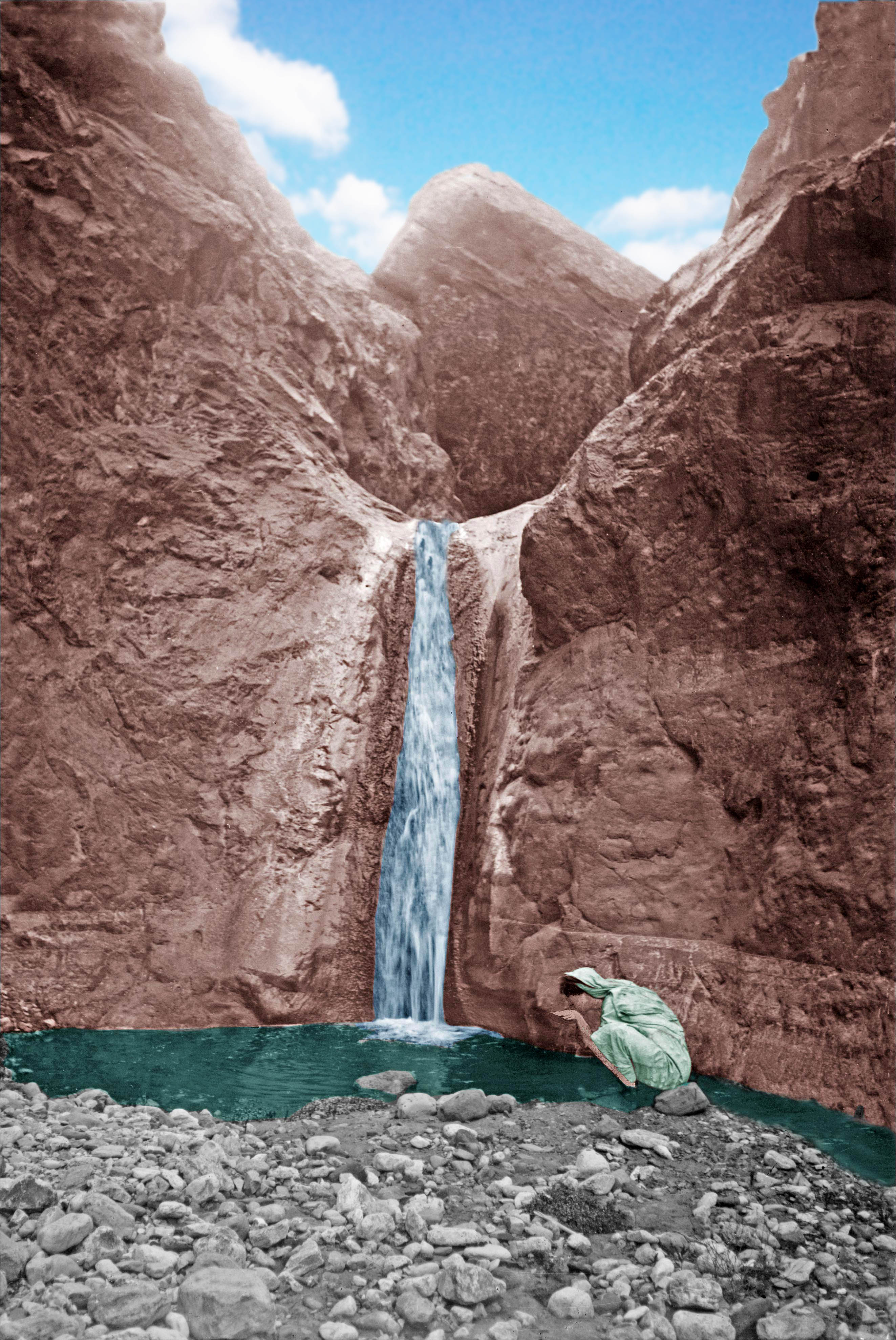 Petra. Waterfall on wadi Siyagh. Coloured.